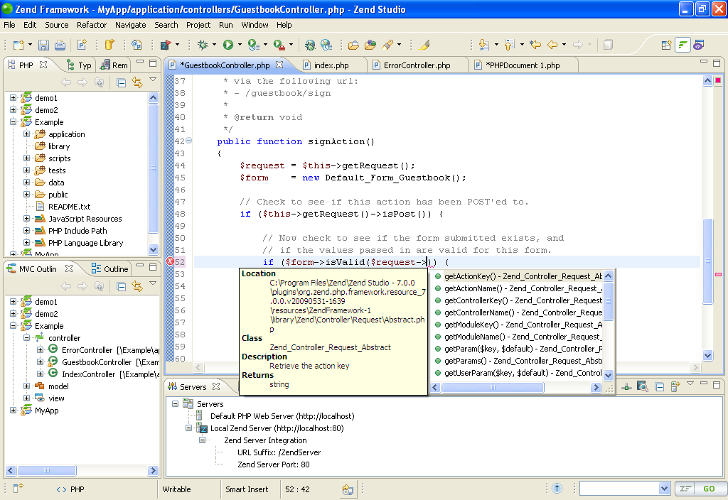 Zend Studio 7 screenshot